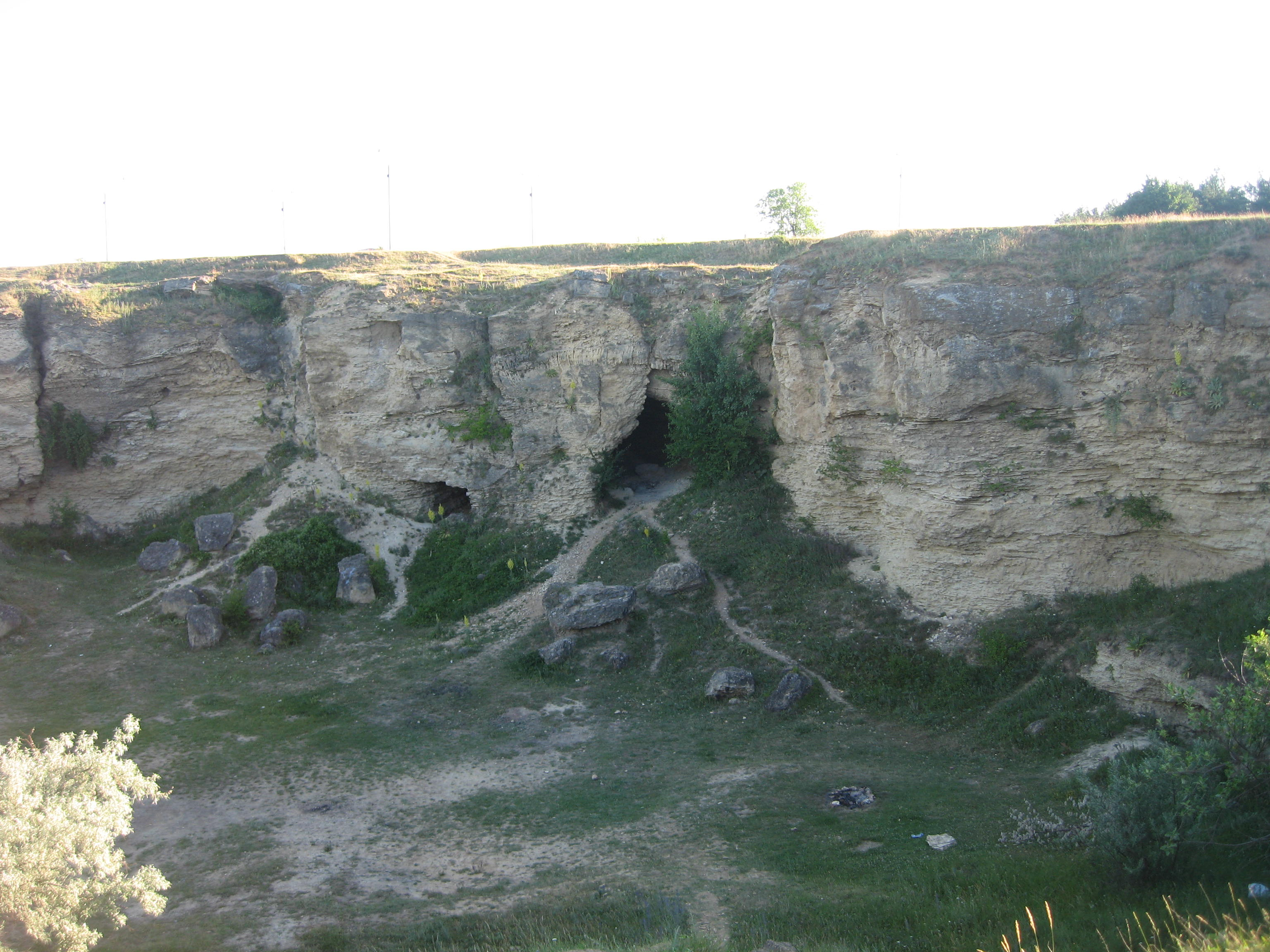 Repedea Hill Fossil Site